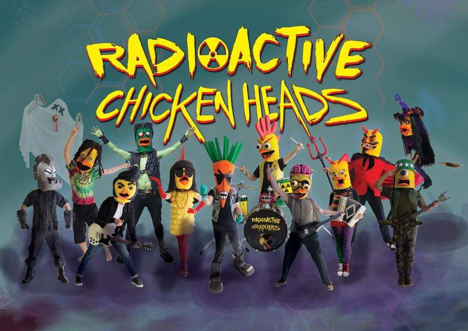 A 2017 promo photo of the Radioactive Chicken Heads. A 2017 promo photo for the Radioactive Chicken Heads.